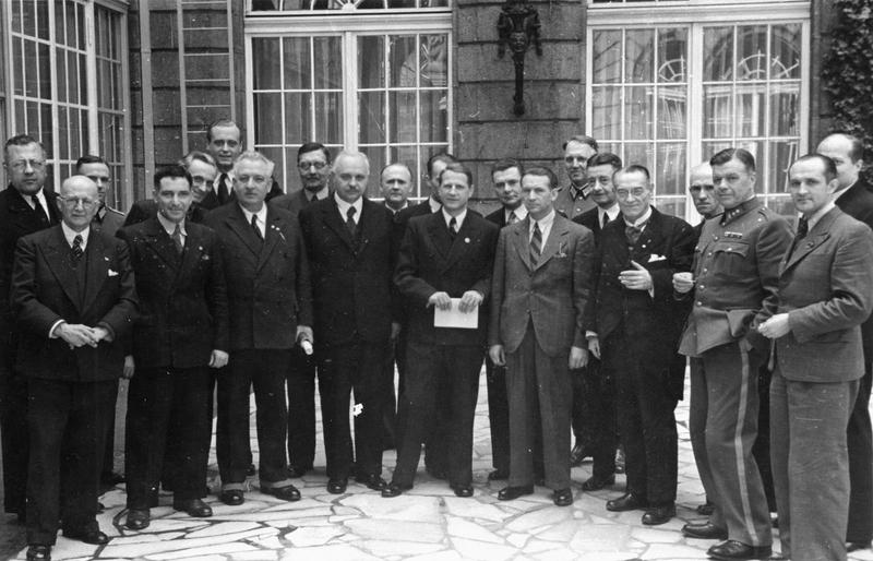 The Katyn Massacre, 1940 Members of the International Medical Commission in Berlin at the meeting with German Health State Leader, Dr Leonardo Conti. From left to right: 2nd - Dr François Naville, Professor of Forensic Medicine at the University of Geneva, Switzerland; 4th - Dr Vincenzo Palmieri, Professor of Forensic Medicine and Criminology at the University of Naples, Italy; 6th - Dr Helge Tramsen, Prosecutor at the Institute of Forensic Medicine in Copenhagen, Denmark; 7th - Dr Eduard Miloslavić, Professor of Forensic Medicine and Criminology at the University of Zagreb, Croatia; 8th - Dr František Hájek, Professor of Forensic Medicine and Criminology at the University of Prague, Protectorate of Bohemia and Moravia (Czech Republic); 9th - Dr Ferenc Orsós, Professor of Forensic Medicine and Criminology at the University of Budapest, Hungary; 12th - Dr Leonard Conti, German State Health Leader (Reichsgesundheitsführer), a host of the meeting; 13th - Dr Marko Markov, Reader of Forensic Medicine and Criminology at the University of Sofia, Bulgaria; 14th - Dr Alexandru Birkle, Reader at the Forensic Medicine and Criminology Institute in Bucarest, Romania; 15th - Dr Gerhard Buhtz - Professor of Forensic Medicine and Criminology at the University of Breslau (Wroclaw), a supervisor of Commission's work; 17th - Dr Reimond Speleers, Professor of Ophthalmology at the University of Ghent, Belgium; 19th - Dr Arno Saxén - Professor of Pathological Anatomy at the University of Helsinki, Finland.